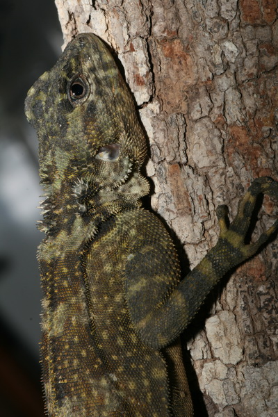 Plica plica